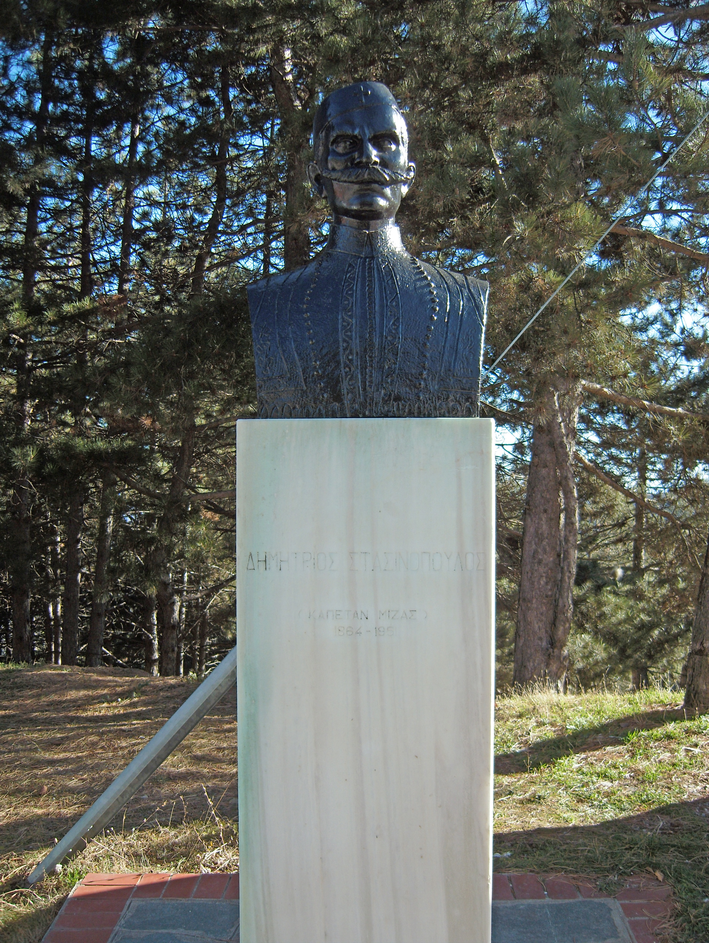 Klisoura